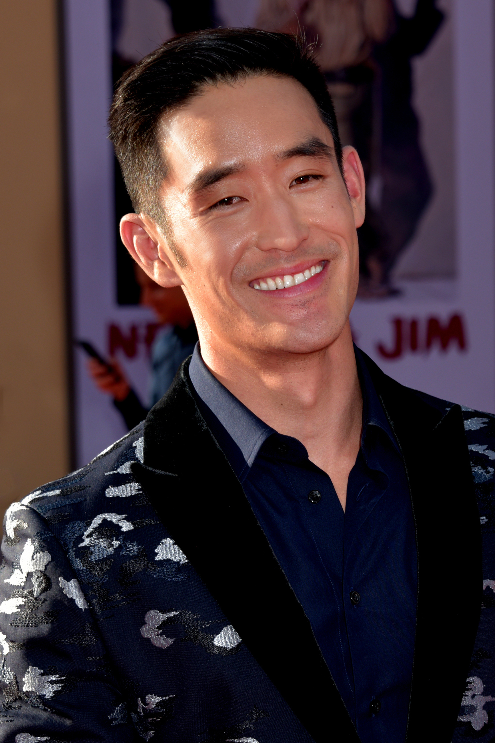 Mike Moh at the “Once Upon A Time In Hollywood” premiere in Hollywood, California on July 22, 2019 – Photo by Glenn Francis of